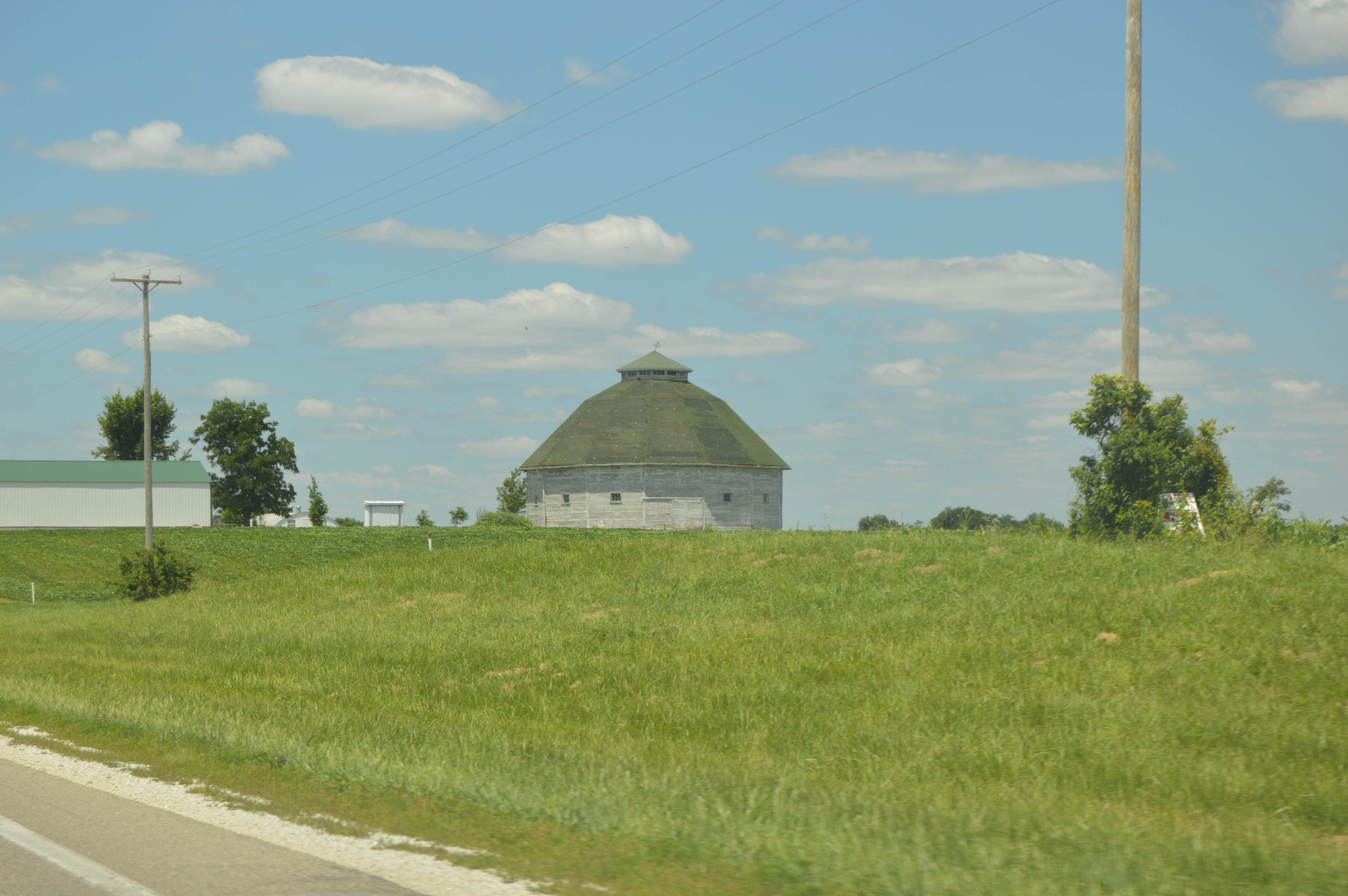 Roadside view of a round barn located on the northern side of U.S. Route 54/Illinois Route 106 west of Pittsfield in Pittsfield Township, Pike County, Illinois, United States.